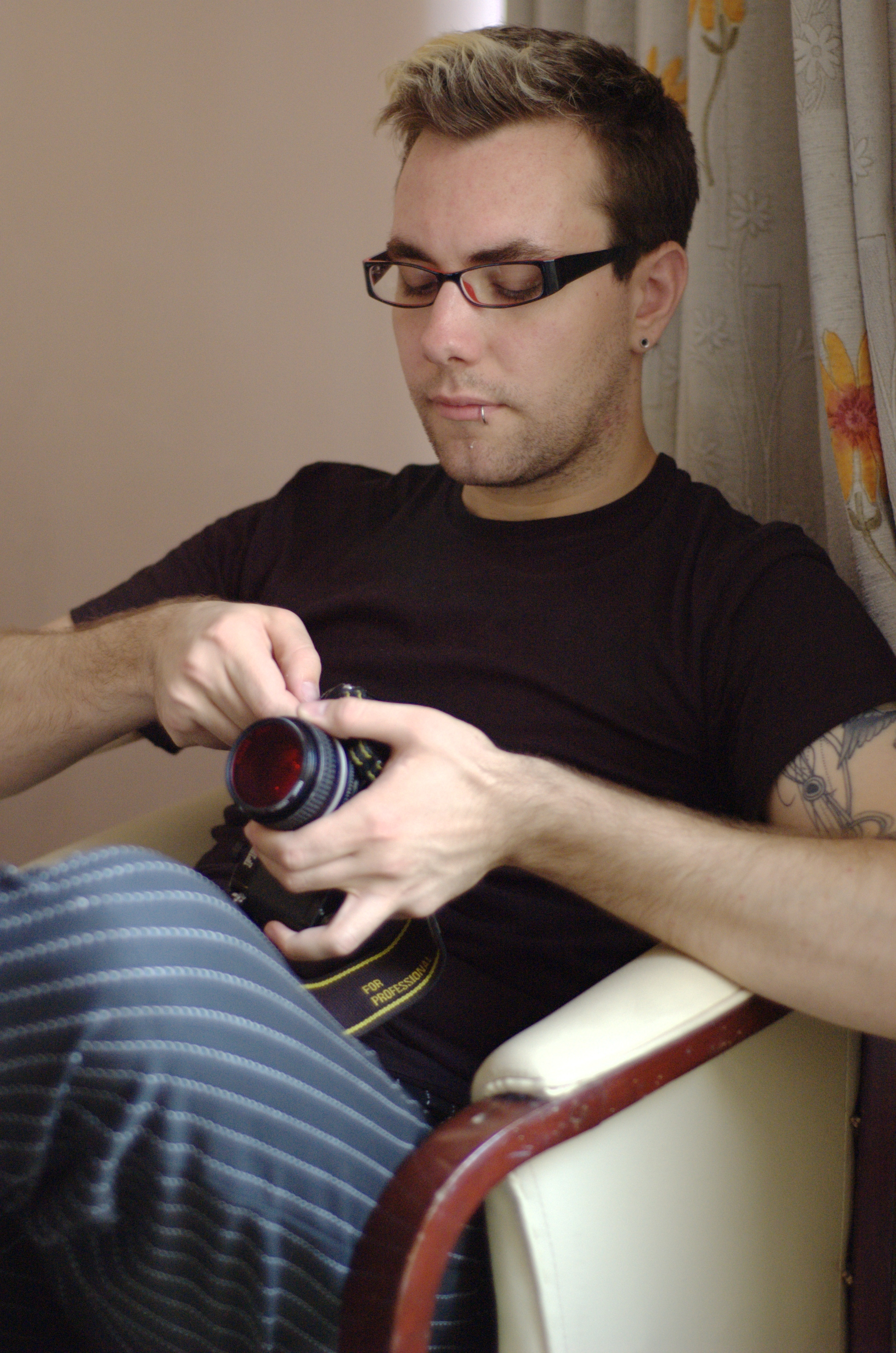 Jacob Appelbaum at the Bangalore airport, India